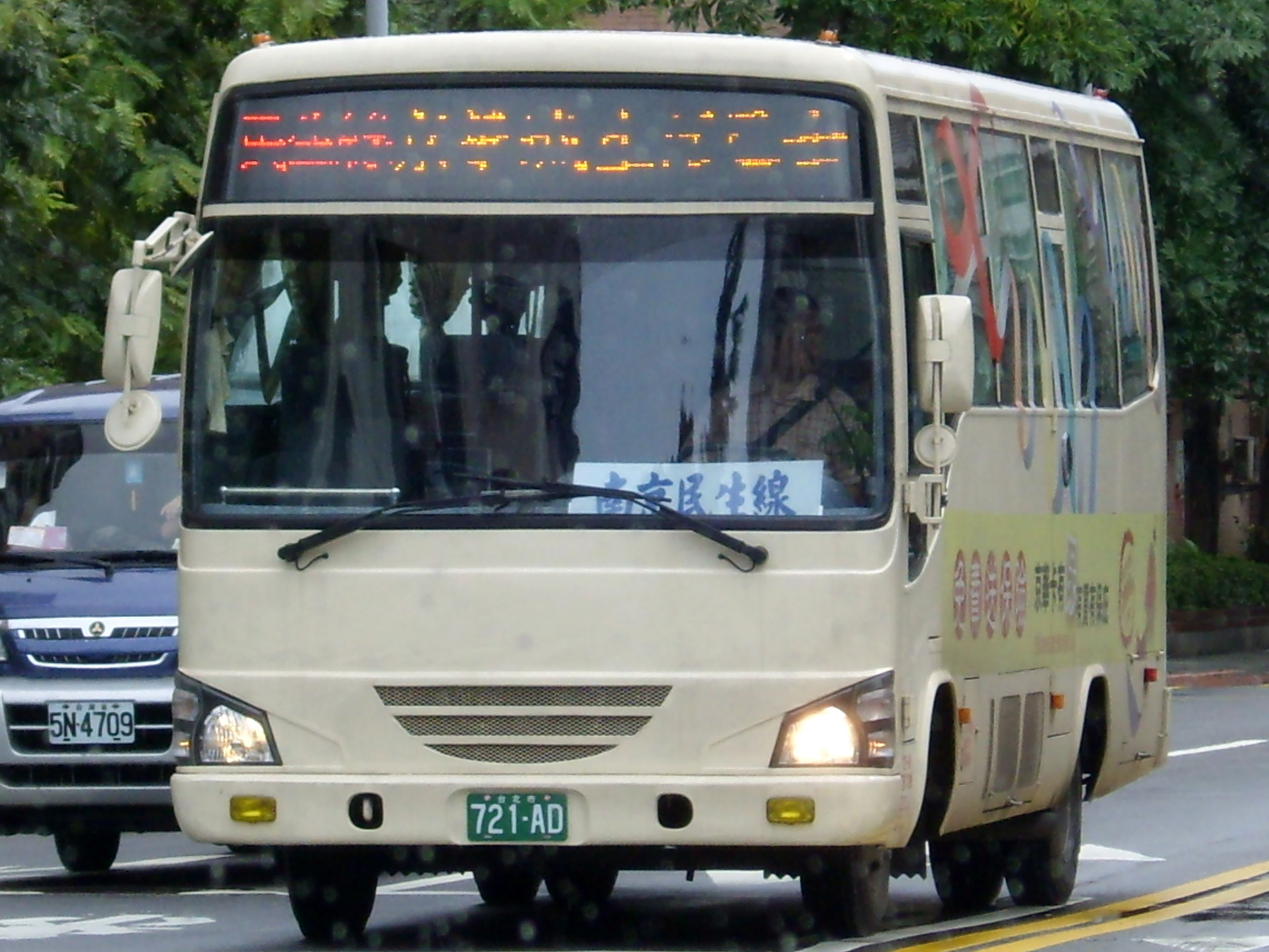 Core Pacific Living Mall Shuttle Bus.